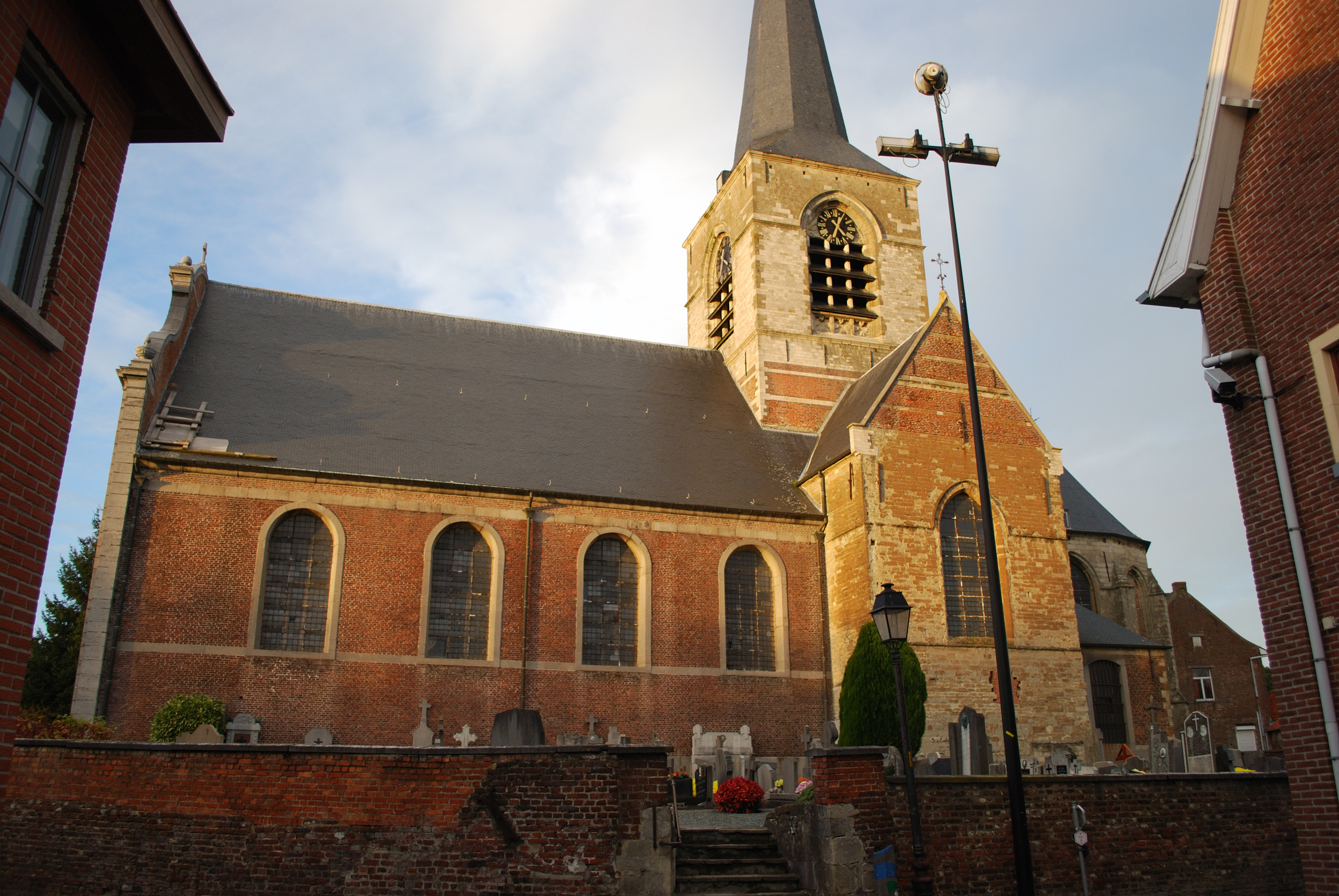 Church of Saint Remigius at the village of Wambeek, commune of Ternat, Belgium. View from the South. Nikon D60 f=18mm f/3.5 1/400s at ISO 200. Manual lighting and colour correction using Nikon ViewNX 1.0.3